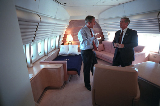 President George W. Bush confers with White House Chief of Staff Andrew Card in his presidential suite aboard Air Force One Sept. 11, 2001.